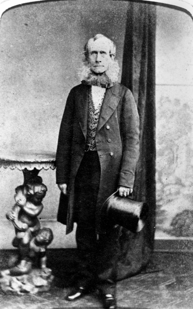 Dr George Fullerton of Toowong Brisbane while in England